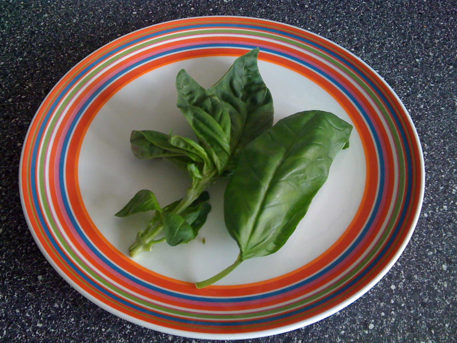 Basil leaves on a plate Sunda: Blaadjes basilicum op een bord